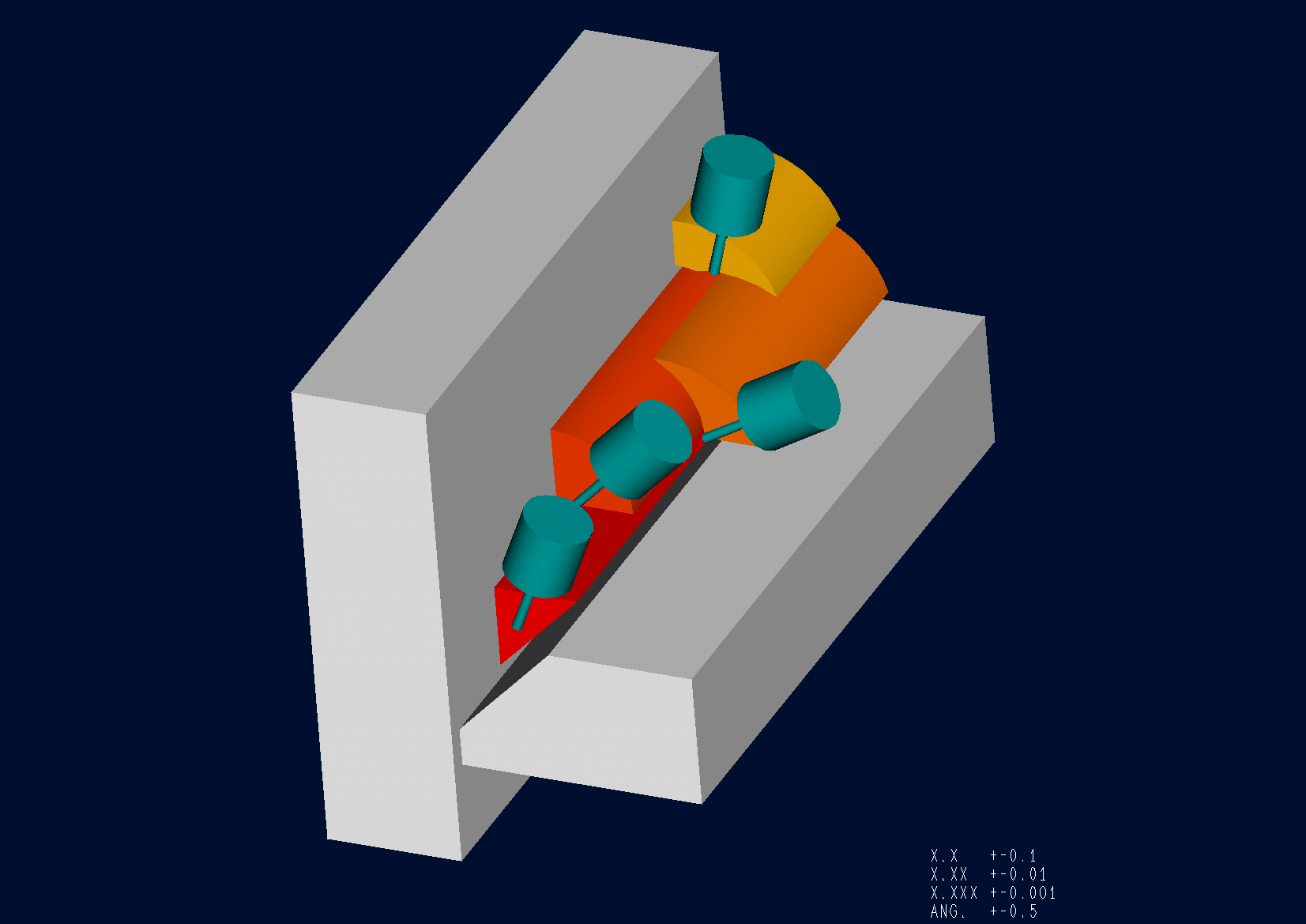 4 layers arc welding